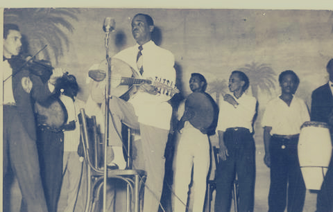 Nubian singer Ahmed monib